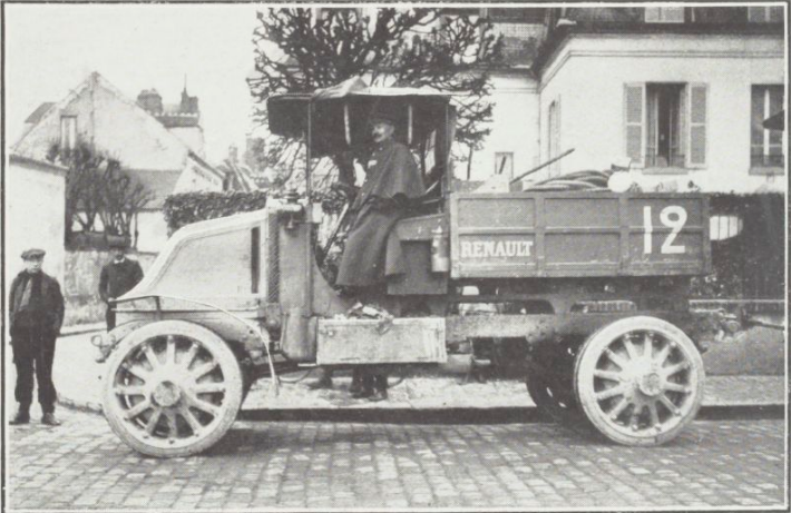 Renault EG n° 12 at tests, 1914